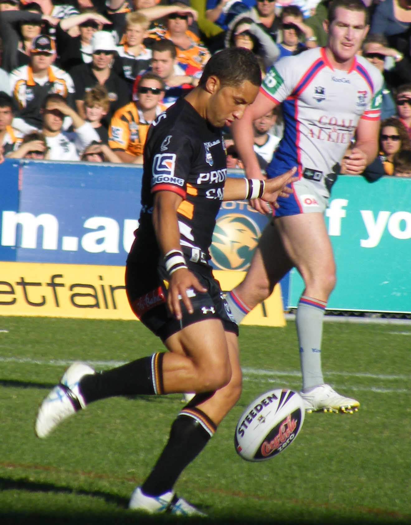 Benji Marshall of the Wests Tigers